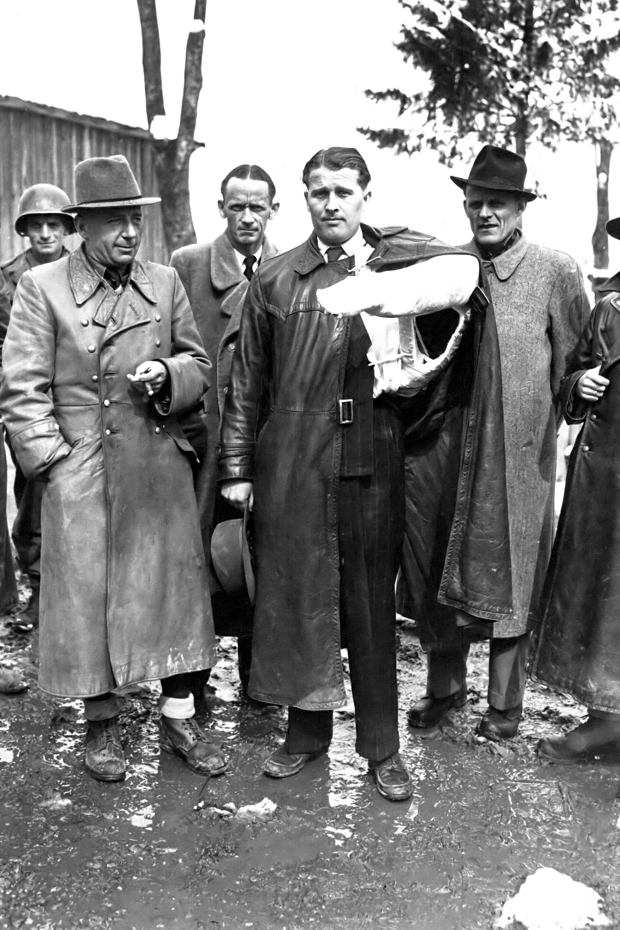 U.S. soldier, Walter Dornberger, Herbert Axster, Wernher von Braun, Hans Lindenberg, and Bernhard Tessmann (partially cropped) after the scientists surrendered to the Allies in 1945 Titles and Captions in Published Books German rocketeers after they surrendered to the U.S. troops in Bavaria. Left to right: Major General Walter Dornberger, Commander of the Army Peenemünde Center; Lieutenant Colonel Herbert Axster, a former Berlin patent lawyer and chief of the military staff at Peenemünde; Wernher von Braun (von Braun broke his arm in a car accident in March when his driver fell asleep at the wheel and the car crashed); and Hans Lindenberg, a combustion chamber specialist in Peenemünde and later in the Mittelwerk. Photo by Technician Fifth Class Louis Wintraub, U.S. Army, Austria, 3 May 1945. Photo courtesy of National Archives and Records Administration.[1] Major General Walter Dornberger (left), commander of the Peenemünde missile base, with Lieutenant Colonel Herbert Axster, Wernher von Braun (with sling), and Hans Lindenberg after they surrendered to U.S. Seventh Army troops May 3, 1945.[2] General Dornberger (left) and Wernher von Braun, arm in cast from an auto accident, after surrendering to American forces in 1945.[3] Dornberger (on left) and von Braun (with cast) on May 3, 1945, at Reutte, in the Austrian Tyrol, shortly after they were taken by the units of the 44th Infantry Division, U. S. Seventh Army.[4]